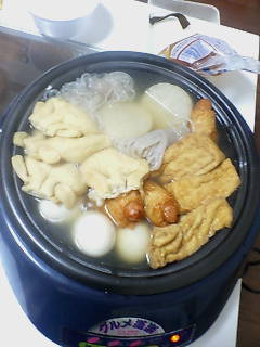 This is an image of home-made oden, a traditional Japanese meal. It was taken at a house-party in Kyoto.